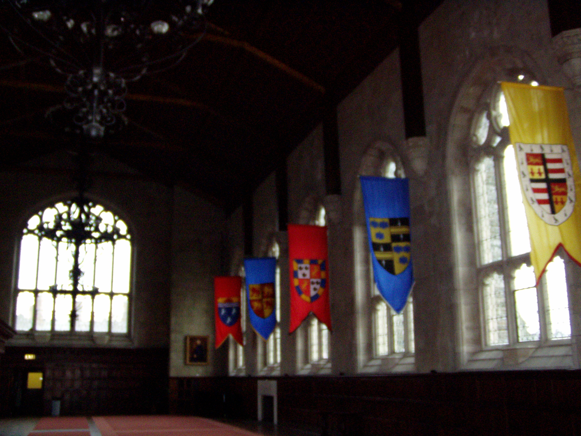 Taken in Philadelphia, Pennsylvania, in December 2005. Banners hanging in Thomas Great Hall, Bryn Mawr College.